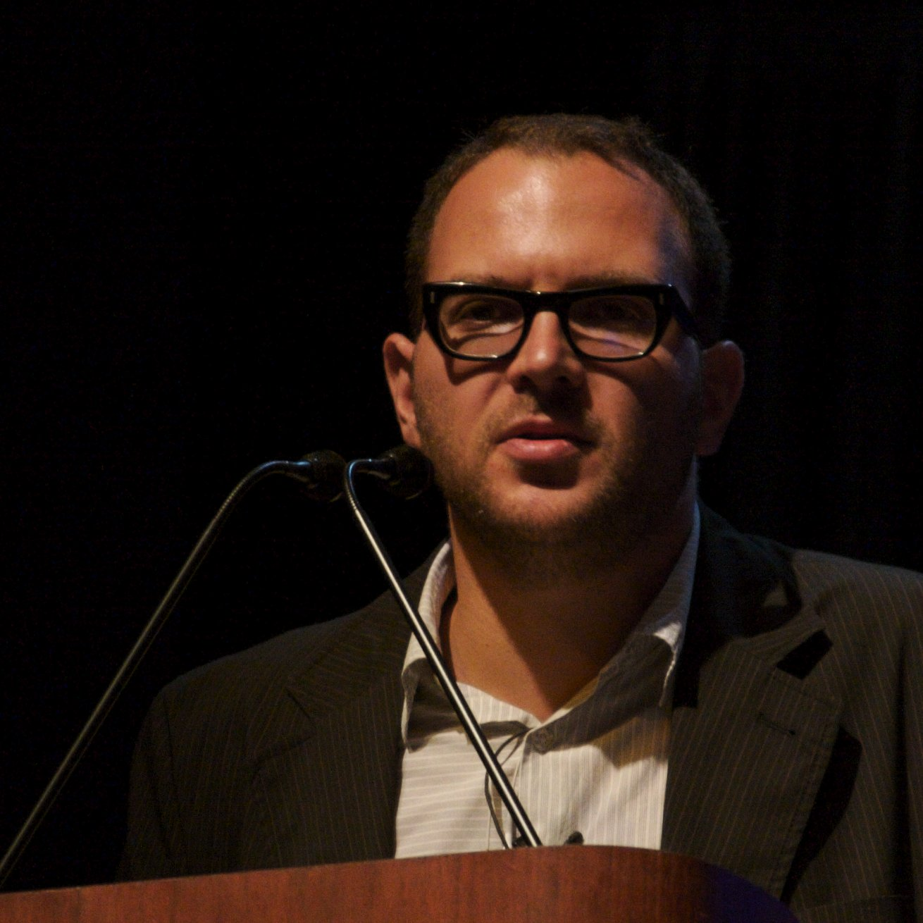 Cory Doctorow, a Canadian blogger/author, at a 2006 summit in Stanford.